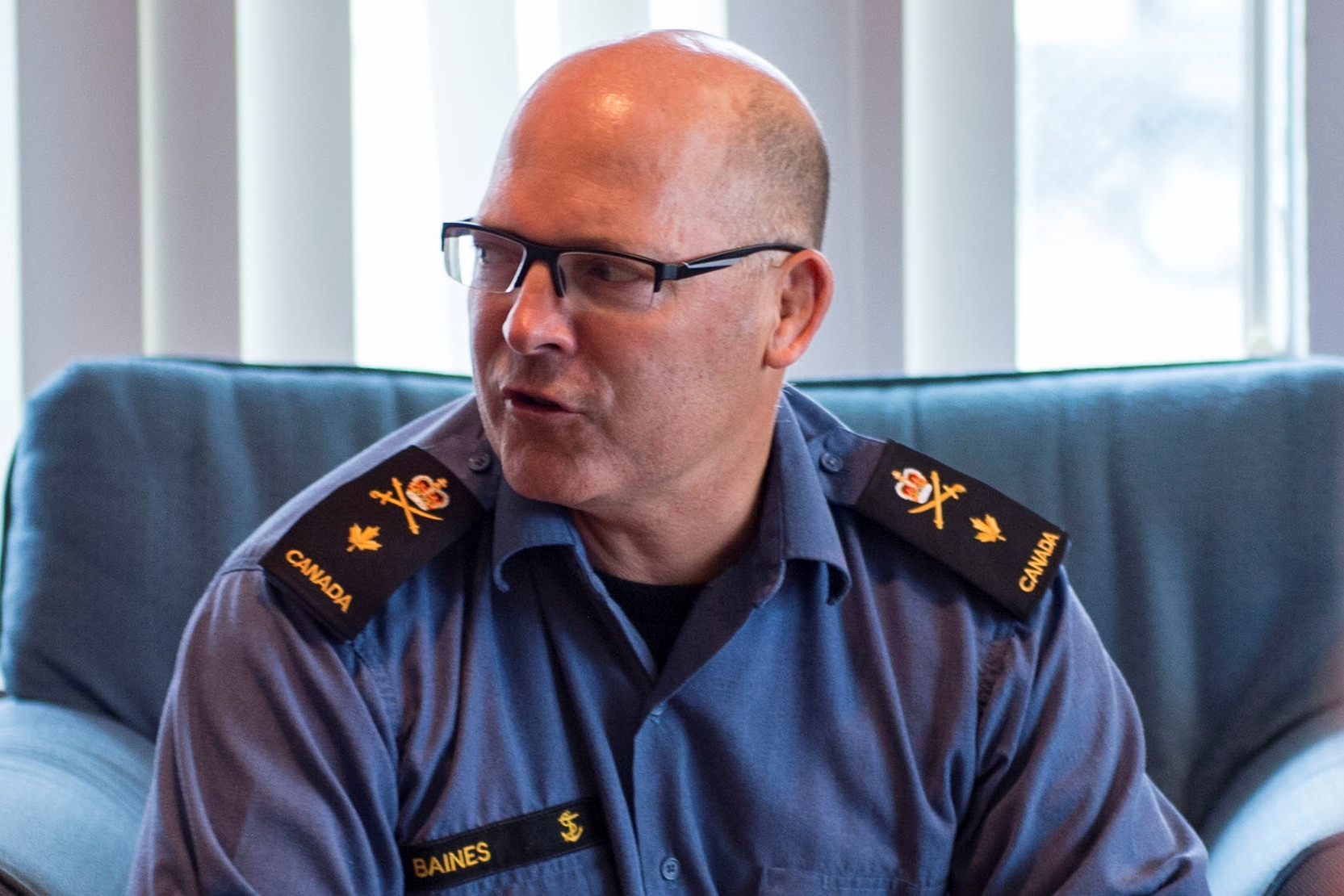 Craig Alan Baines, MSC, CD